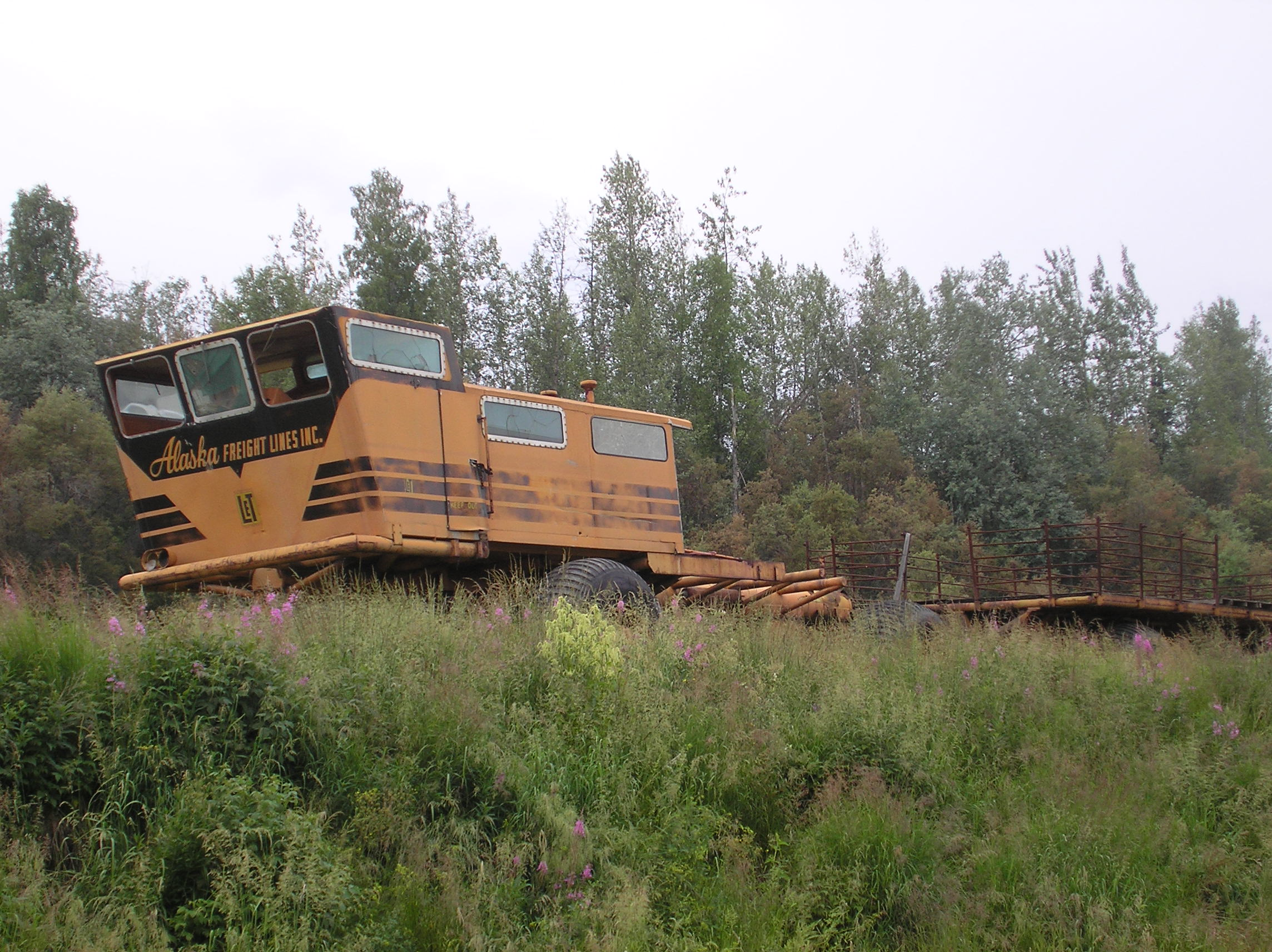 The LeTorneau Sno-Freighter is seen in Fox, Alaska, next to the Steese Highway, in summer 2009.